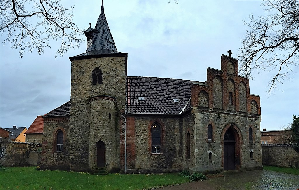 Church St. Marien in Drohndorf